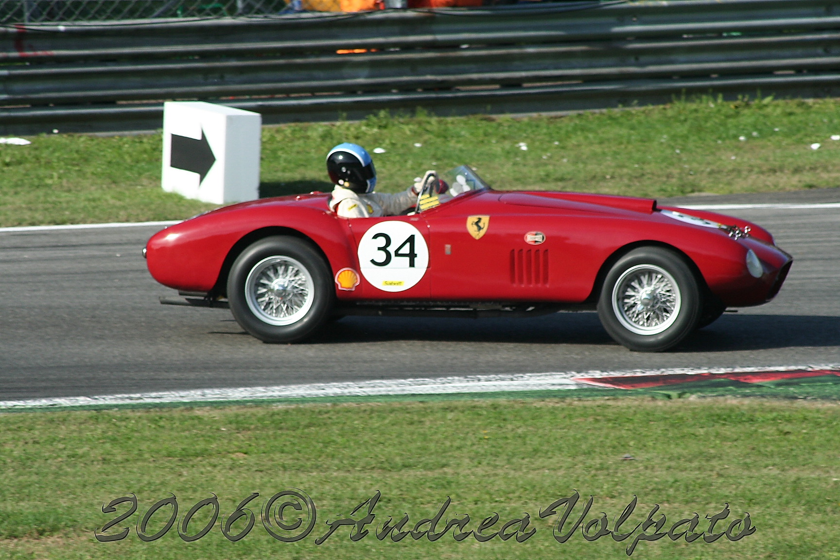 1950 Ferrari 275/340 by Scaglietti s/n 0030MT at the 2006 Ferrari Finali Mondiali at Monza on 29 October 2006